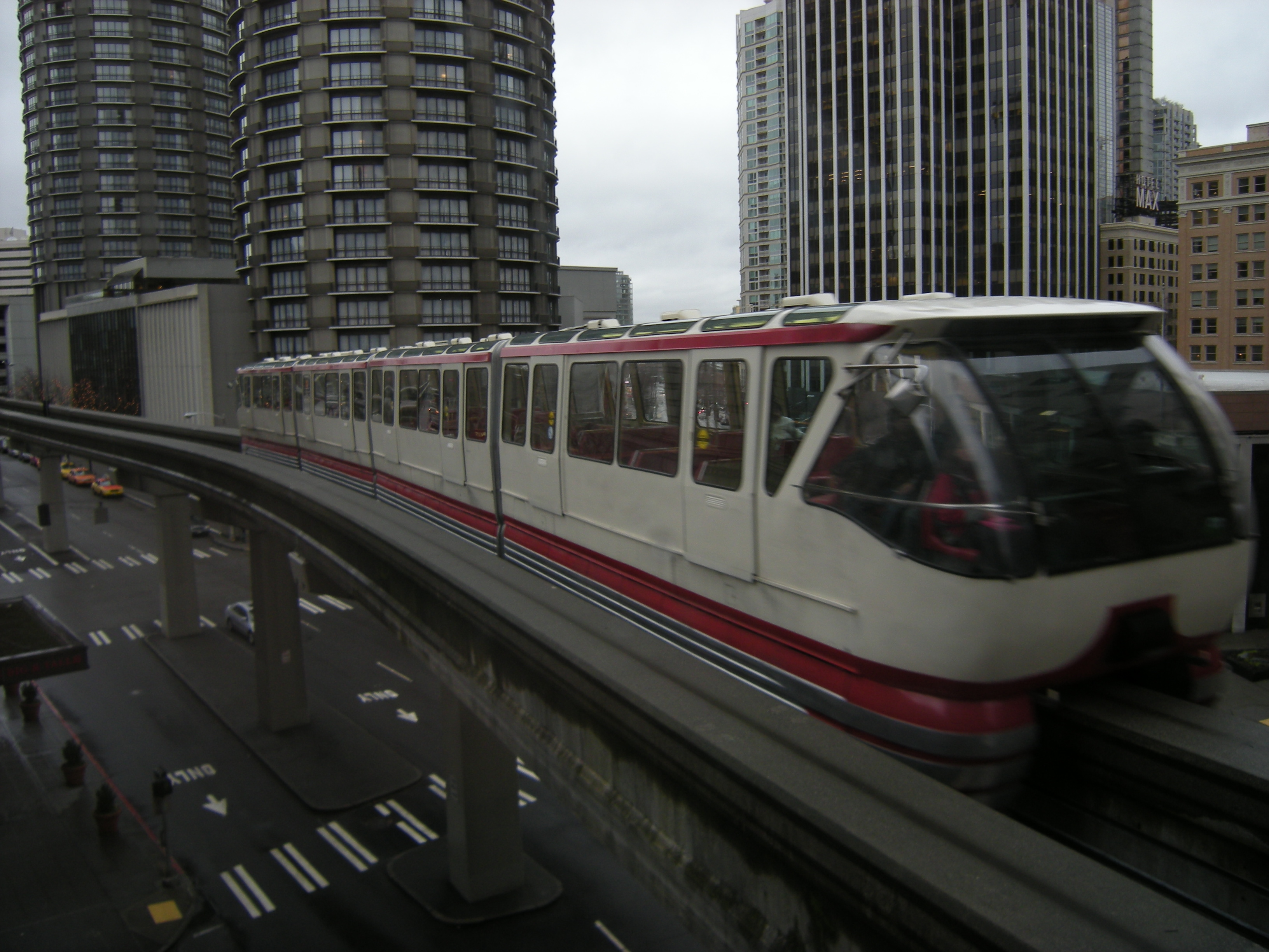 Seattle Center Monorail seen from the Food Court at the Westlake Mall building in Seattle, Washington.